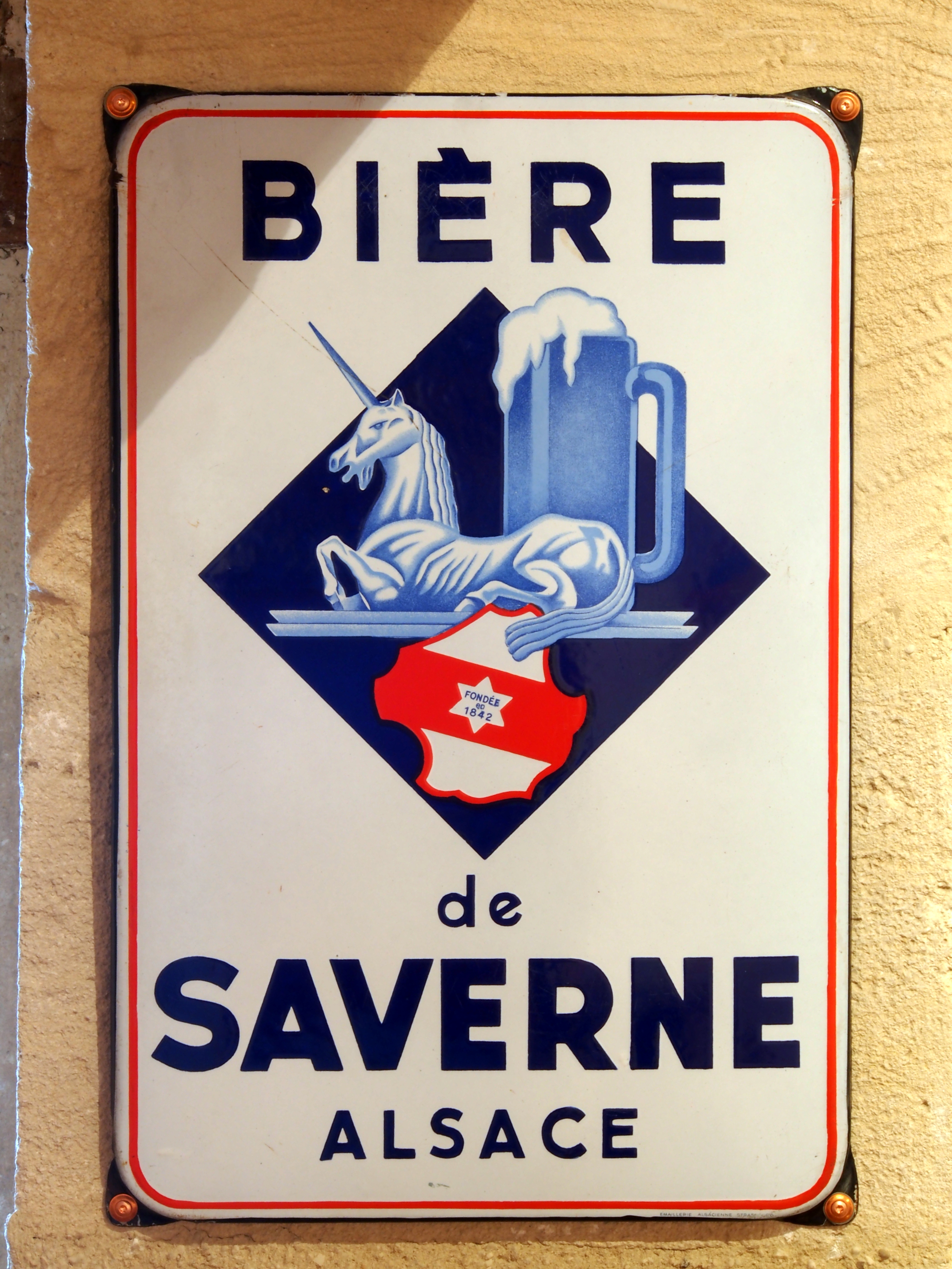 Bière Saverne, Alsace, enamel sign brewery unicorne.